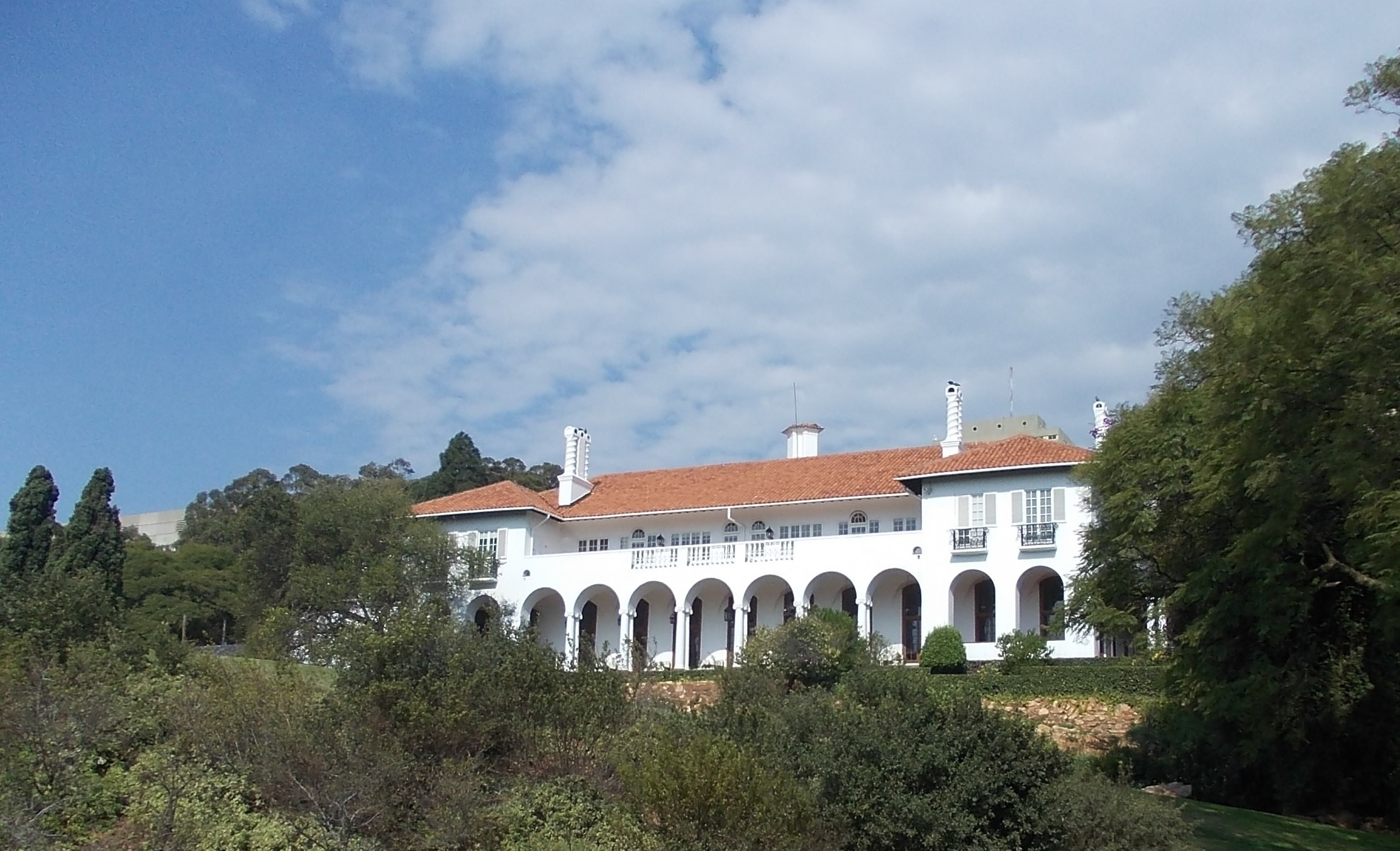 In 1906 it was bought by Randlord and MP Sir Lionel Philips, chairman of Rand Mines. His influential wife Florence founder of the Johannesburg Art Gallery and described as 'No Ordinary Women', masterminded the creation of the present Villa Arcadia with Architect Sir Herbert Baker. Certain design features are mirrored in Pretoria's Union Buildings, designed by baker the following year.